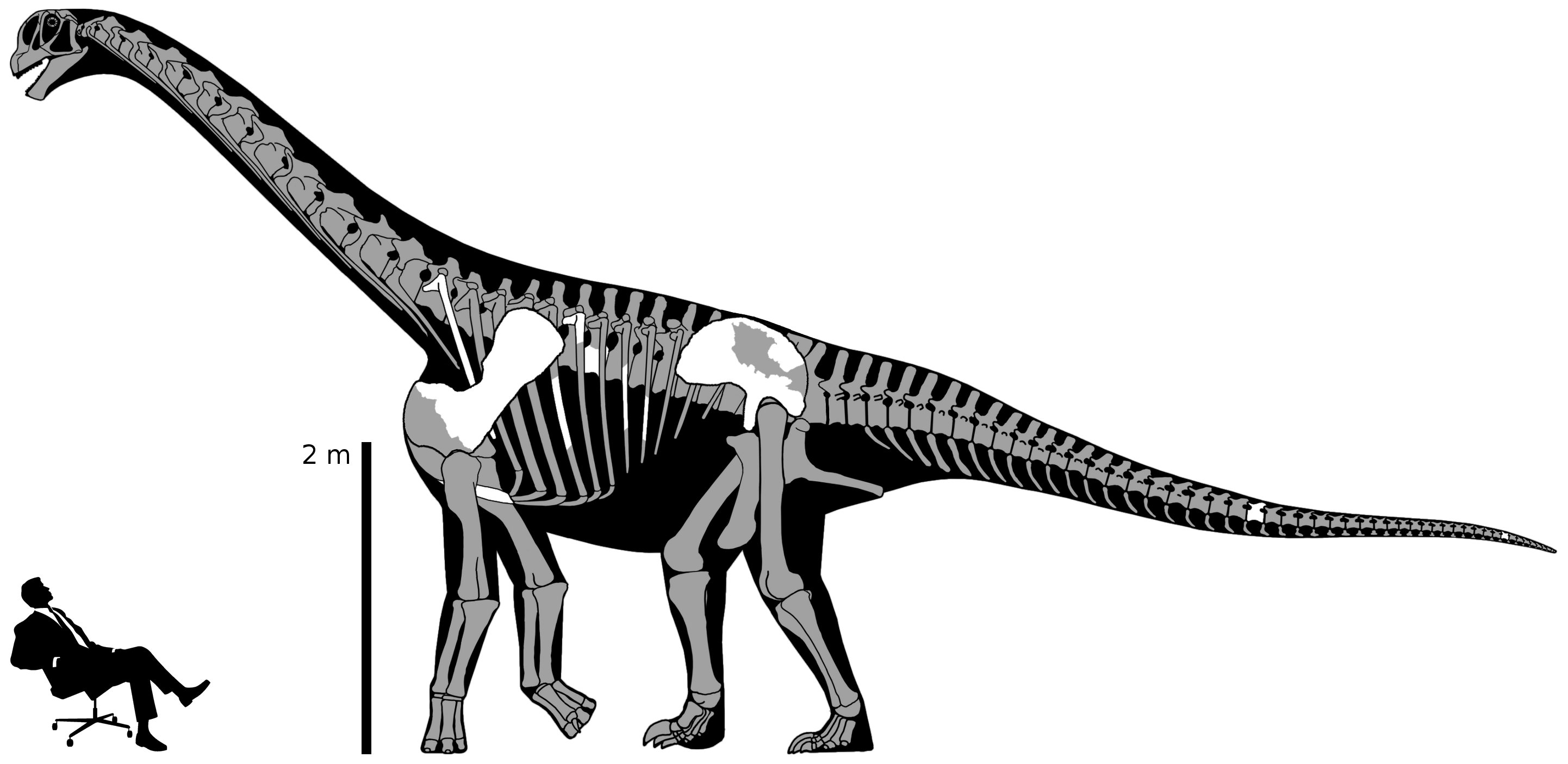 Skeletal inventory of the camarasauromorph sauropod Brontomerus mcintoshi gen. et sp. nov. from the Lower Cretaceous Cedar Mountain Forma− tion of Utah, in left lateral view. Preserved elements are white, missing elements are reconstructed in gray. After a Camarasaurus grandis reconstruction kindly provided by Scott Hartman.